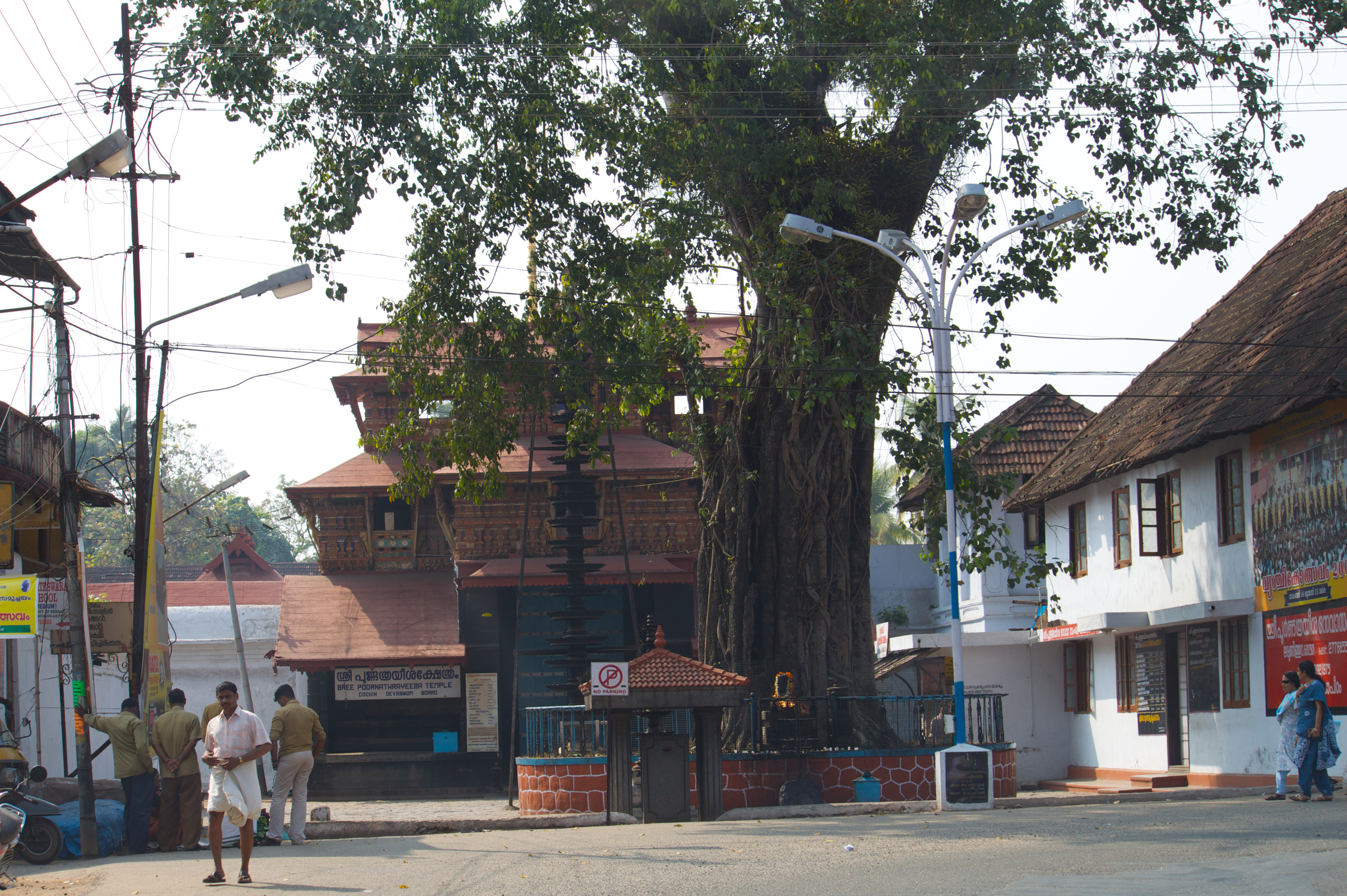 Thrippunithara poornathrayeesha temple